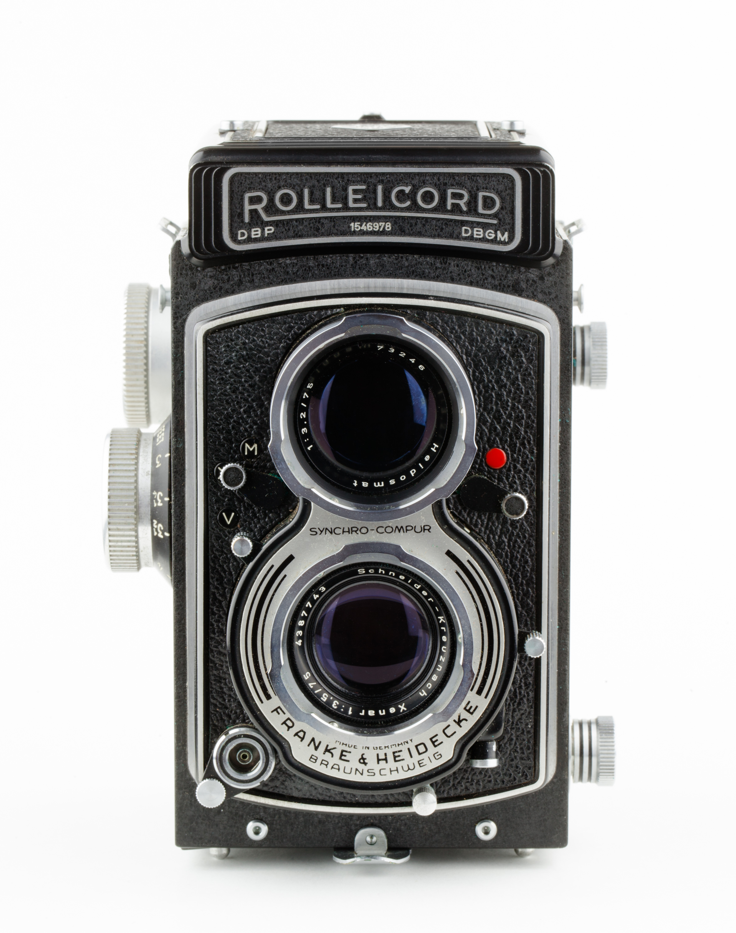 Rolleicord Model V - Twin-lens Reflex camera.